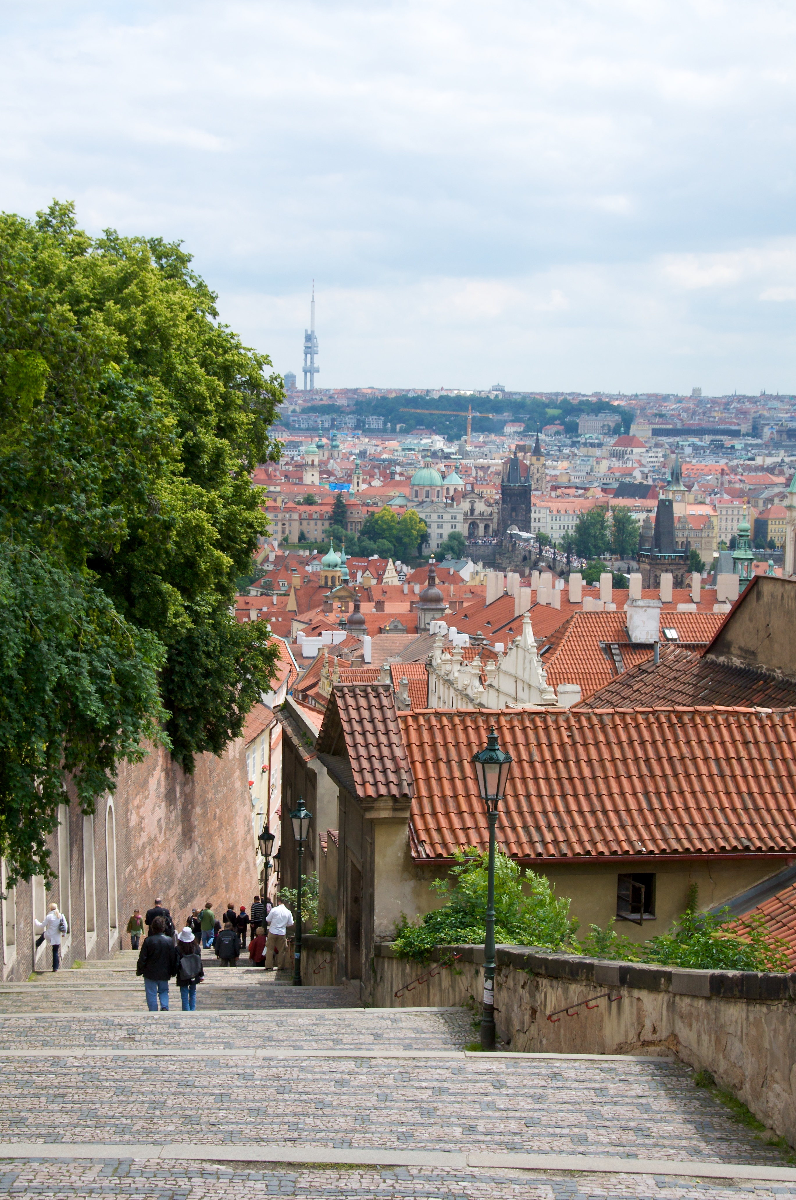 Castle Steps, Prague A spring weekend in Prague.